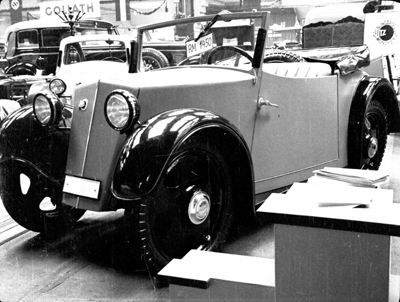 Bungartz Butz, built by German company Bungartz & Co. according to the patents of German engineer Josef Ganz, 1934.